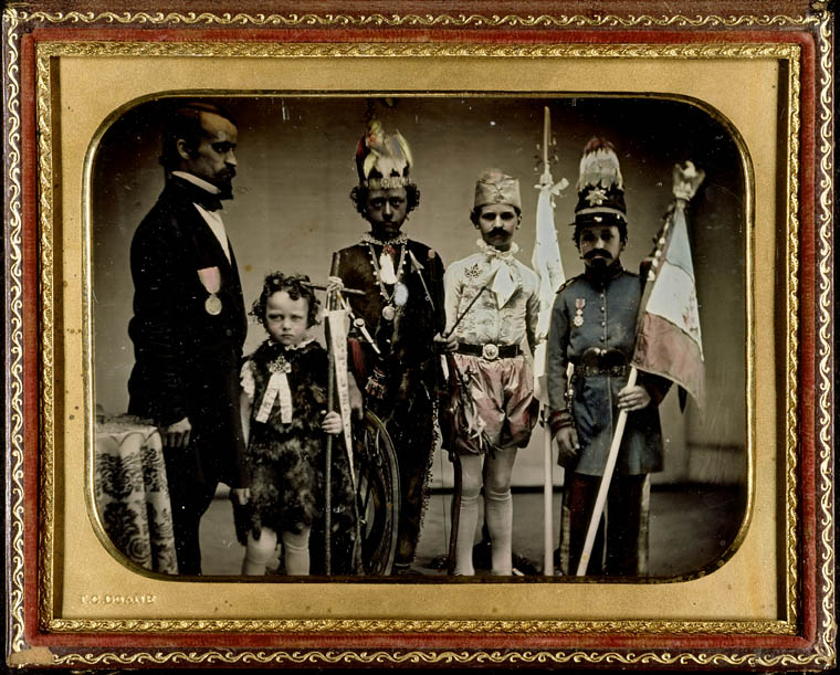 Daguerreotype of a group in costume for Saint Jean Baptiste Day, Montreal, 1855. For the history of this document : Joan M. Schwartz, « More than Un beau souvenir du Canada »